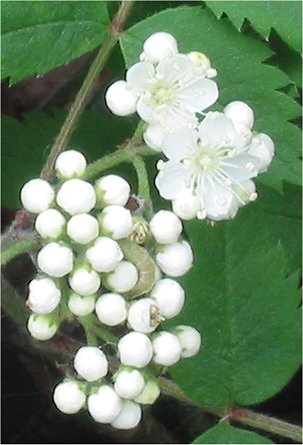 Sorbus aucuparia flowers with caterpillar (Wilde lijsterbes bloeiwijze met rups)